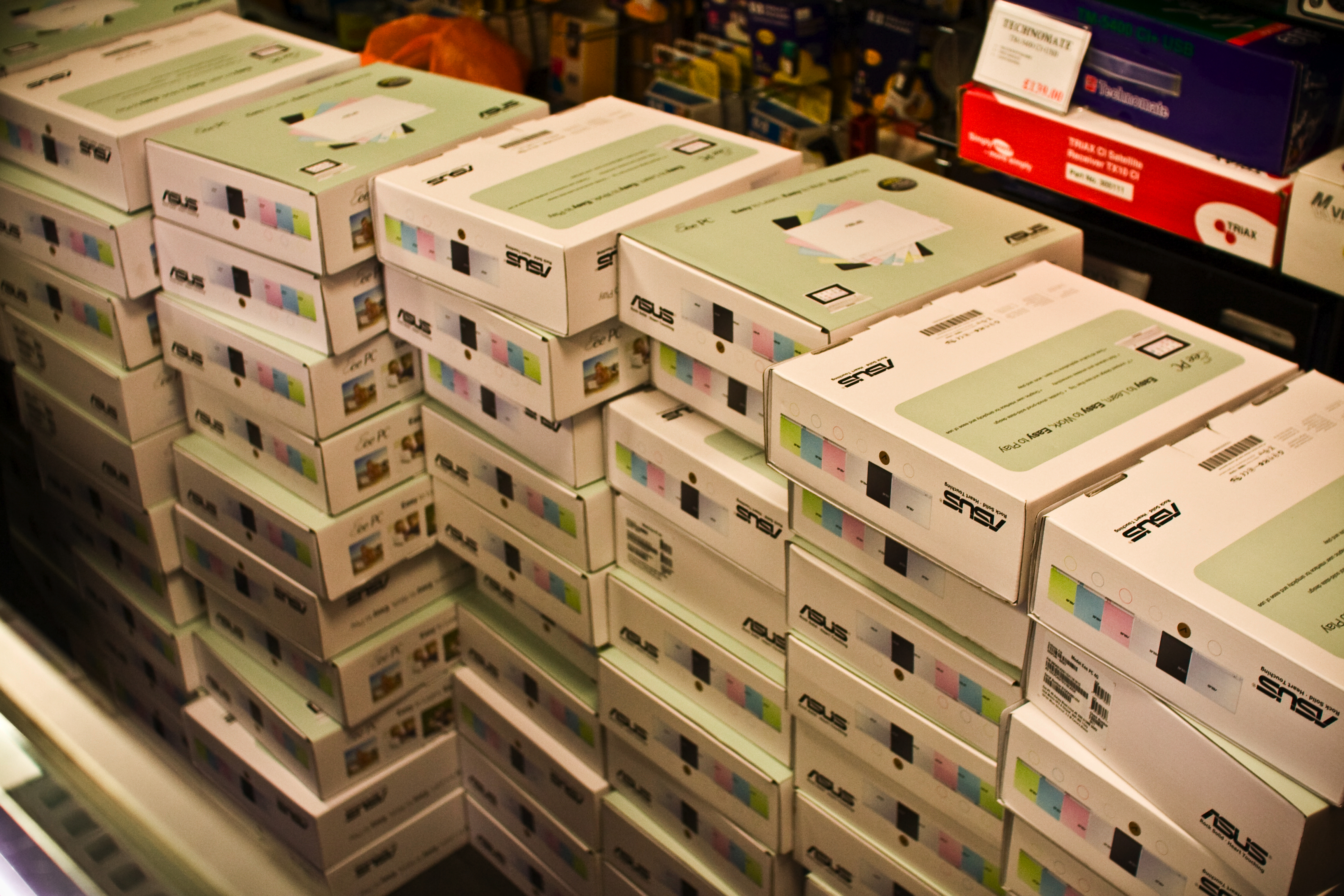 About 100 black 4-gig Asus Eees got delivered at Harp Electronics (237 Tottenham Court Road), just as I was shopping in the area. Everyone else seems to be out of stock.